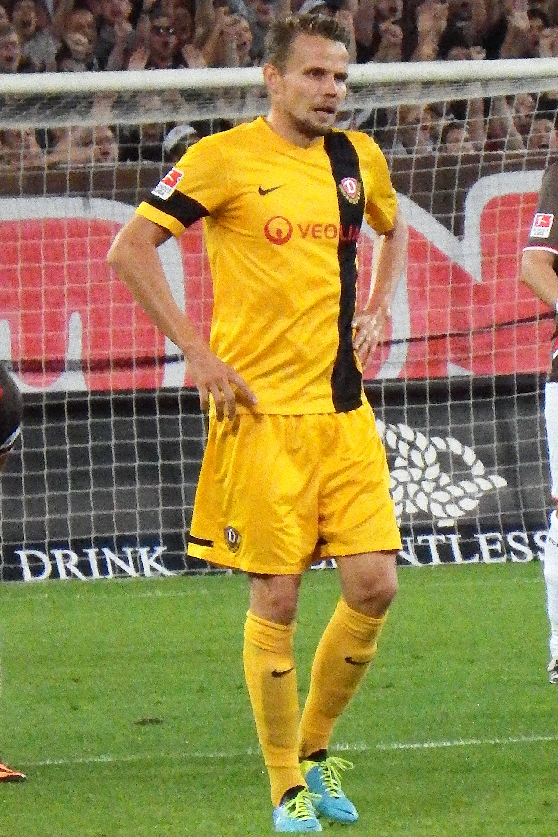 Sebastian Schuppan as Player of Dynamo Dresden